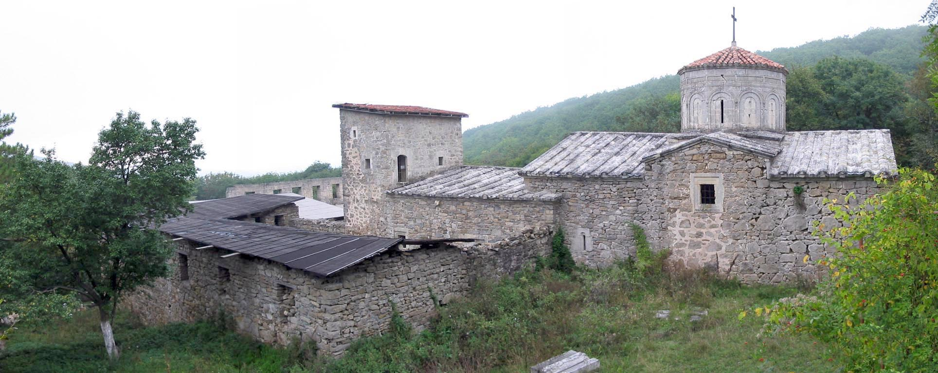 The 14th century Armenian monastery of Surb Khach, Staryi Krym, Ukraine